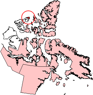 Mapa de la isla Borden. Base image created by Keith Edkins as GFDL, modified by Tim Vasquez.